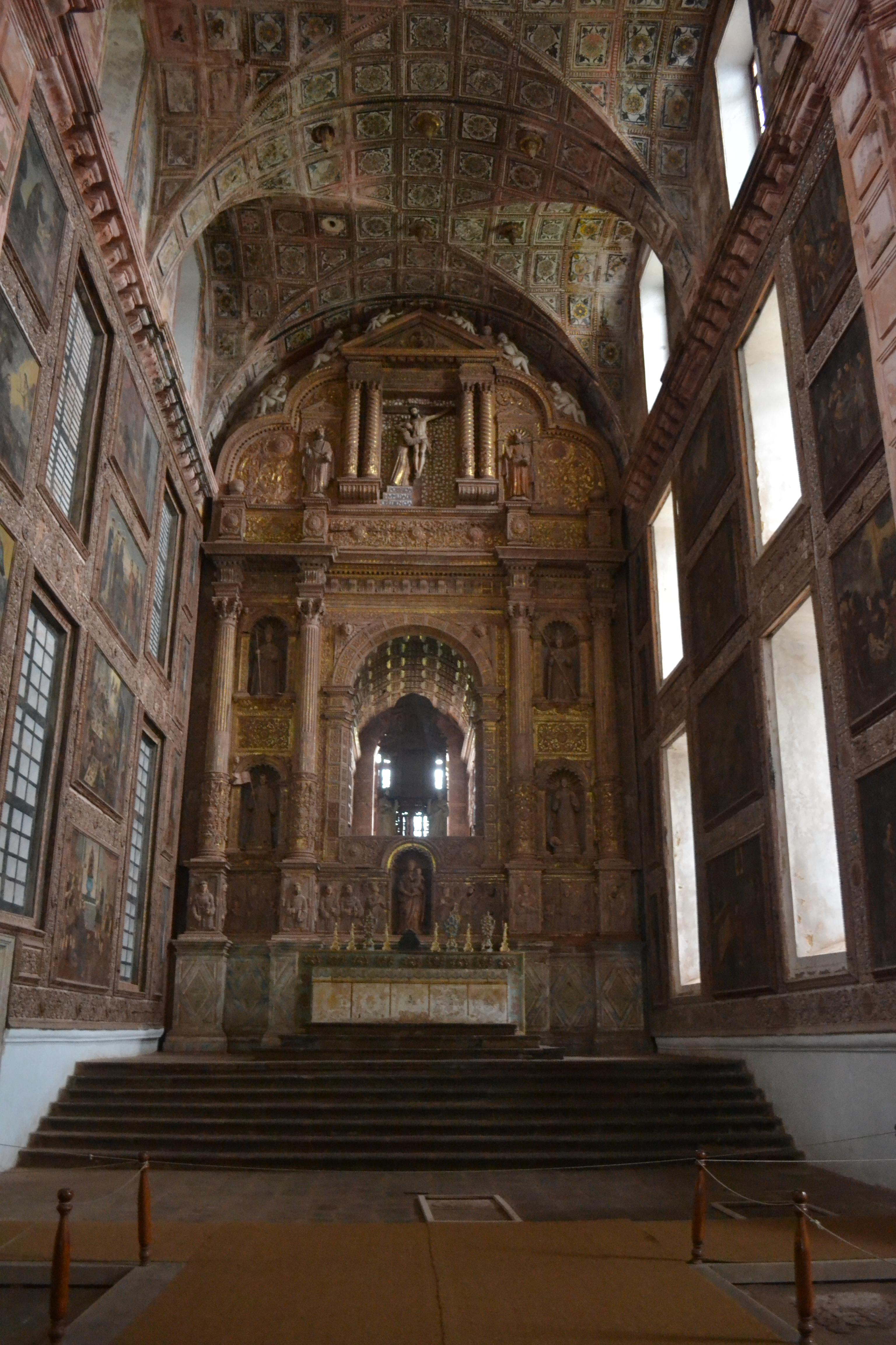 Saint Catherine's Chapel in Velha Goa, Goa, India